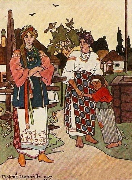 Ethnic Ukrainians in national costumes and traditional Ukrainian setting. Drawing by George Narbut (Heorhiy Narbut), Ukrainian painter born in 1886 in Narbutivka, Hlukhiv district, Sumy region of eastern Ukraine.